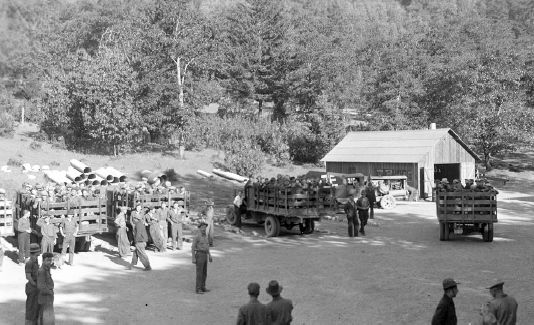 Civilian Conservation Corps work detail departing Camp 1650 at Rand Ranger Station; near Galice, Oregon (1935)